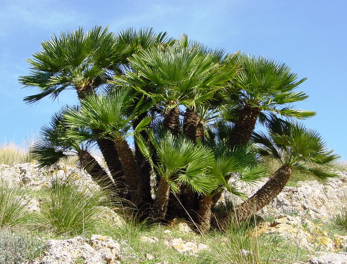 Riserva naturale dello Zingaro, Sicily Chamaerops humilis